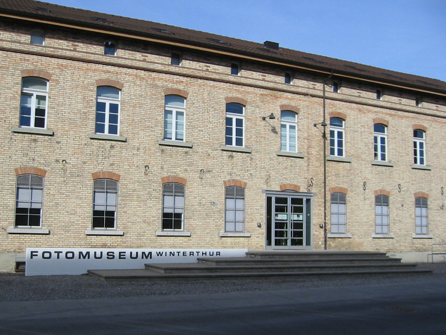 Exterior view of Fotomuseum Winterthur